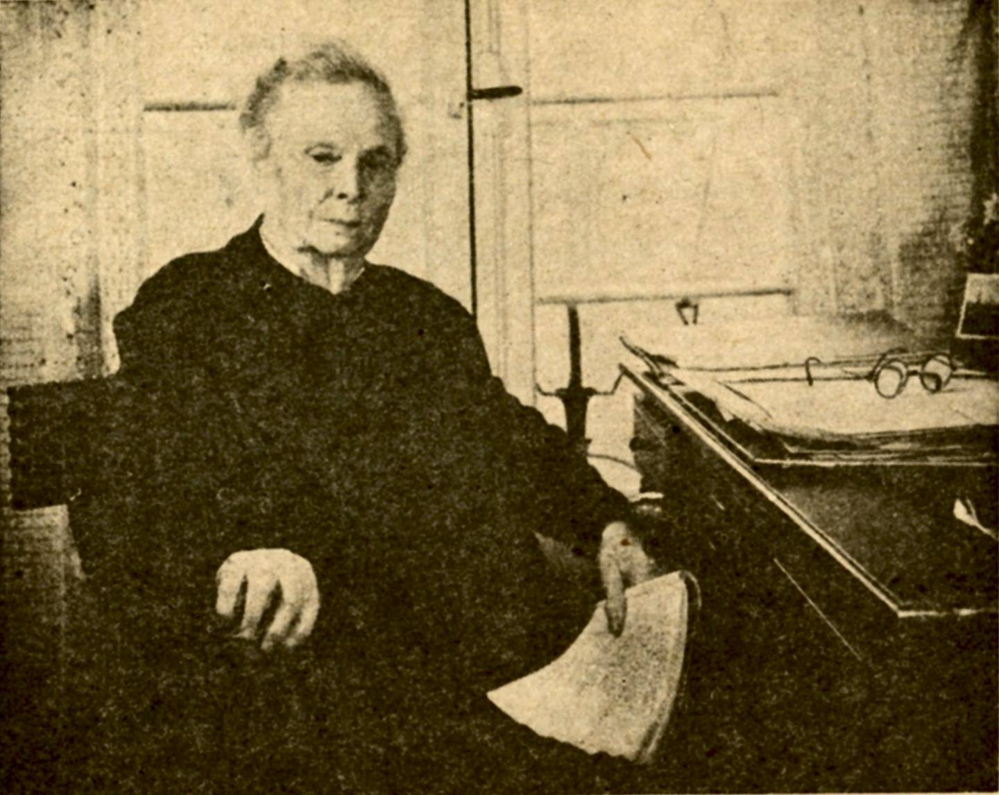 Photograph of the Finnish composer Ida Moberg (1859–1947).